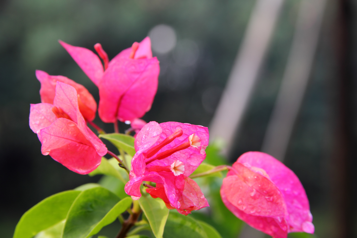 lesser bougainvillea, paperflower